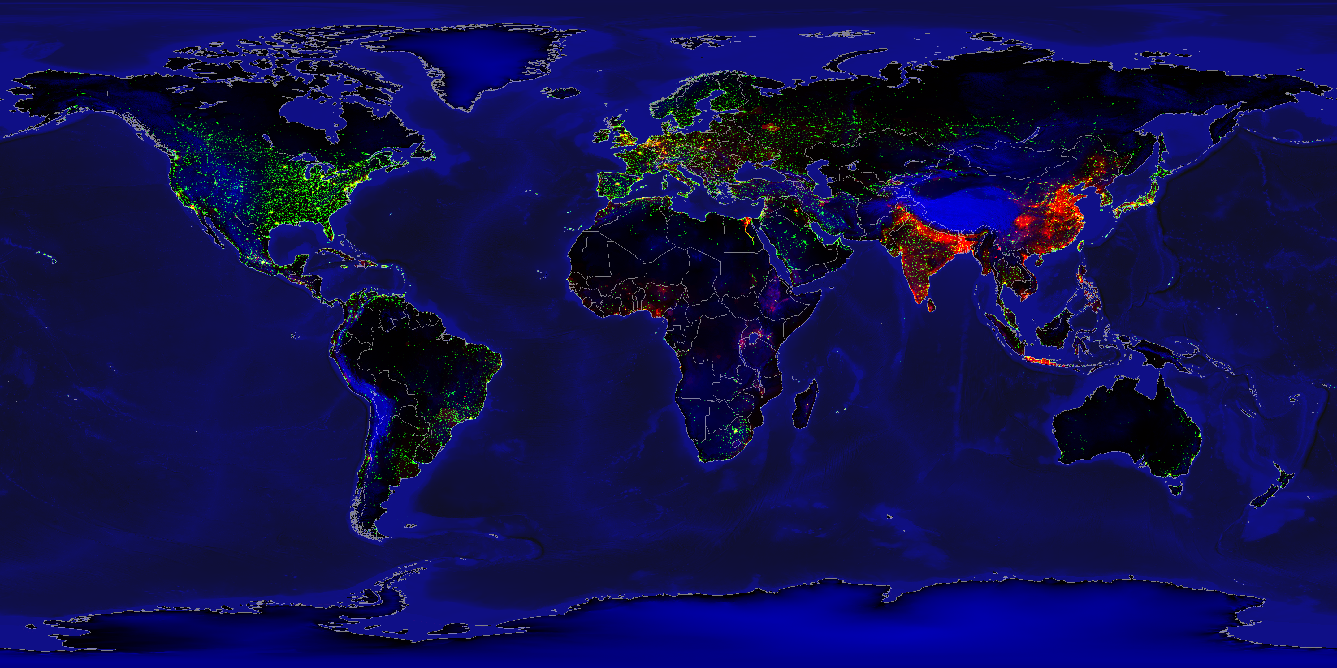 Equirectangular projection of Earth lights (green channel) and population density (red channel) in 1994 showing disproportionate use of light between developed and developing countries, with topography and bathymetry (blue channel) as well as coastlines and country borders (alpha channel).